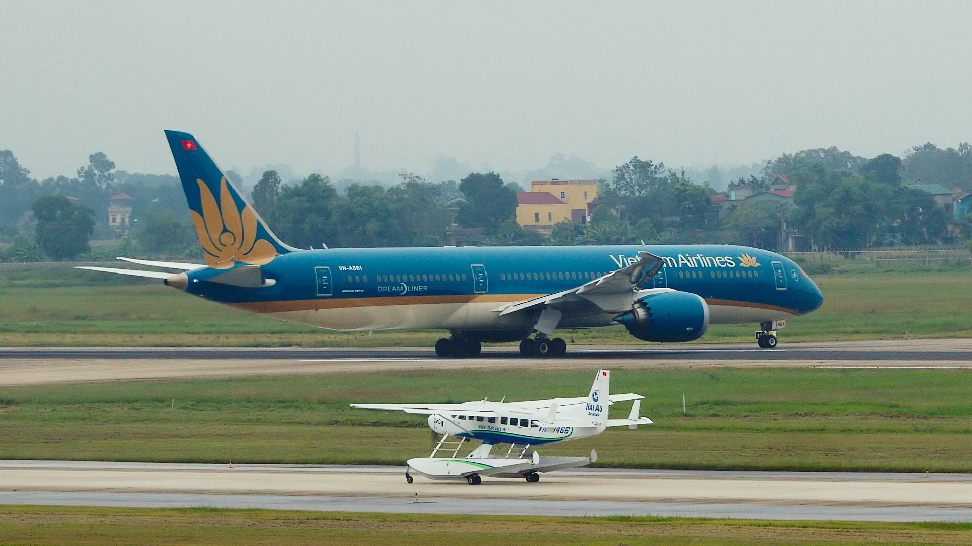 Noi Bai airport operations